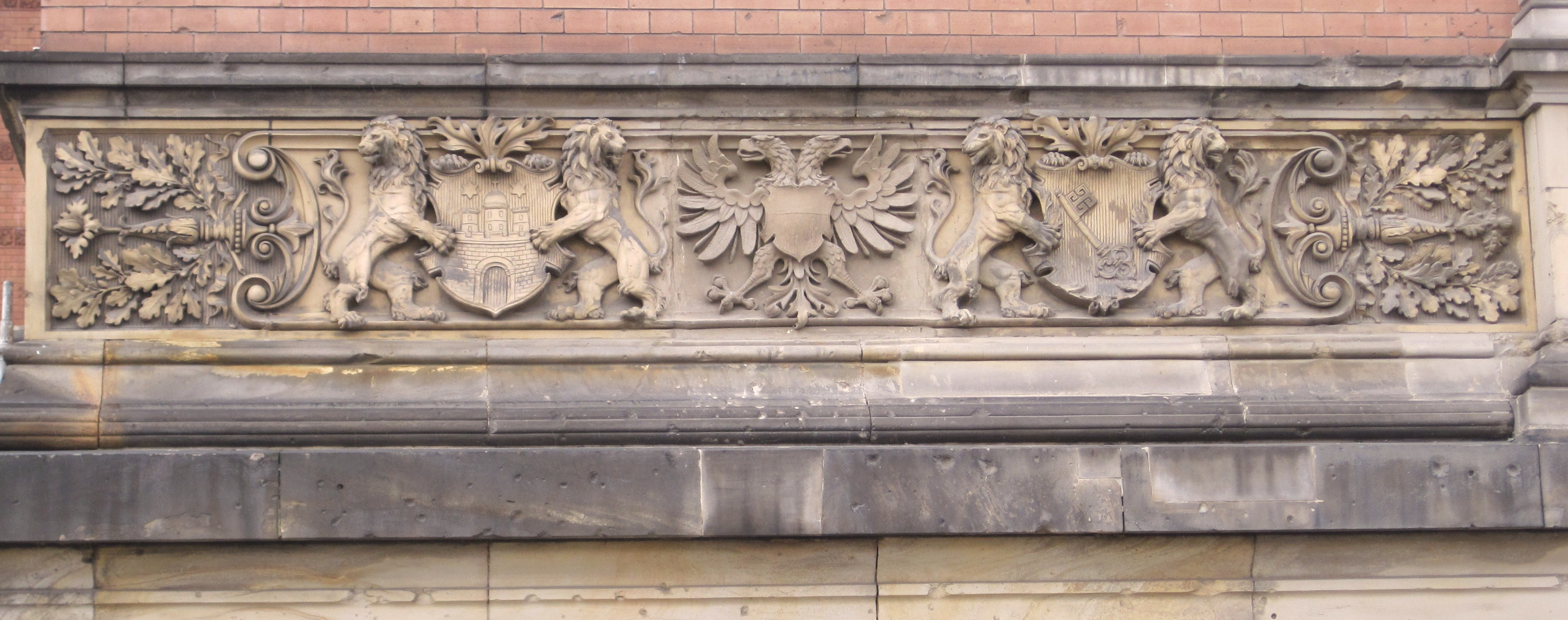 Reliefs of coats of arms of the three hanseatic cities at the Martin-Gropius-Bau, Berlin.